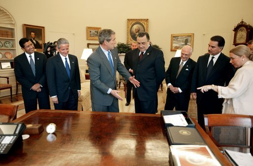 President George W. Bush explains the history of his desk during a meeting with Central American presidents in the Oval Office Thursday, April 10, 2003. From left, they are, Presidents Francisco Flores of El Salvador, Ricardo Maduro of Honduras, Abel Pacheco of Costa Rica, Enrique Bolanos of Nicaragua, and Alfonso Portillo of Guatemala.